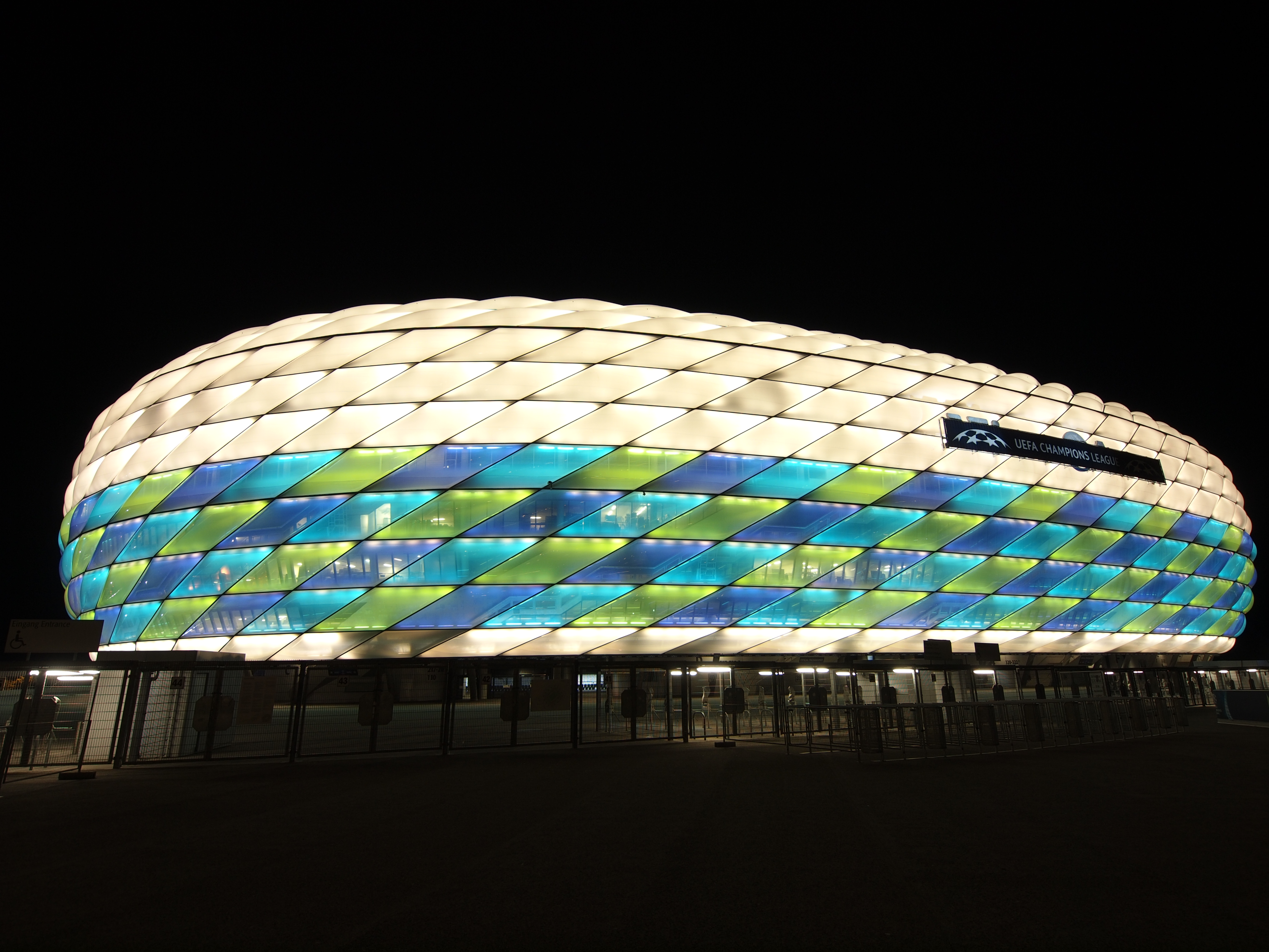 The illumination of the Allianz Arena during the UEFA Champions League 2011/2012.